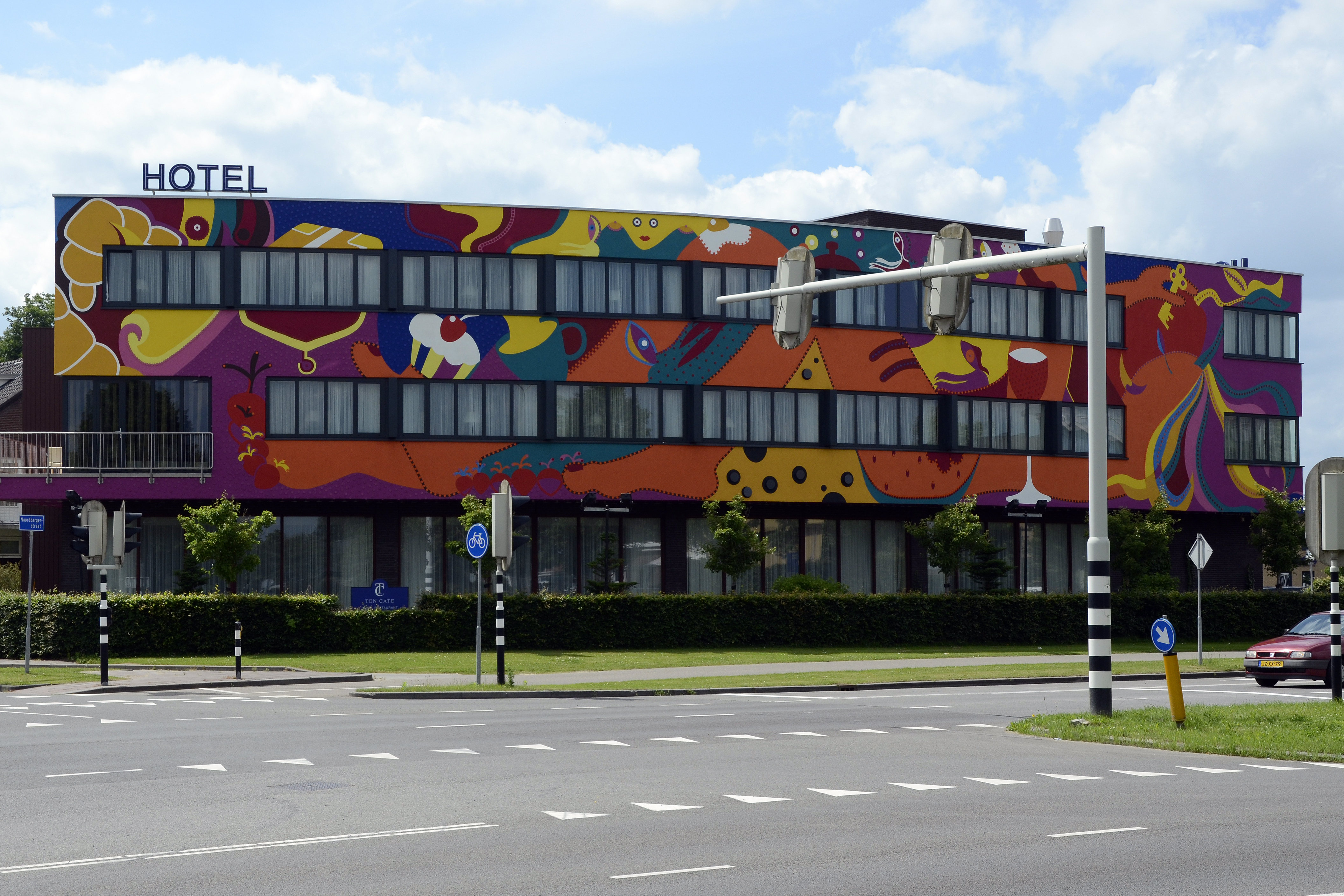 Ten Cate Hotel in Emmen, painted in toyism style